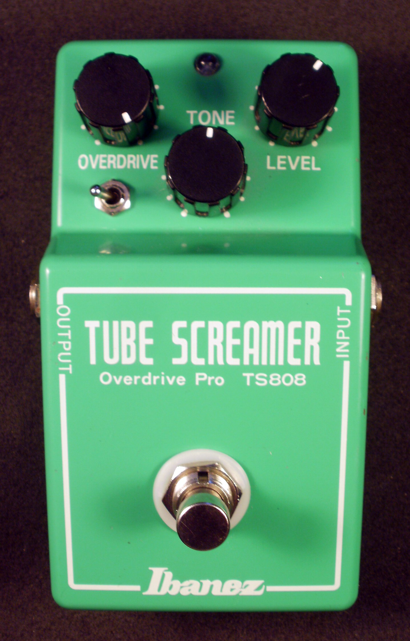 Ibanez TS-808 Tube Screamer Overdrive Pro (True bypass Mod and Tone Mod) Brigth led. True bypass. Gain mod and Fat tone mod. MKT capacitors.